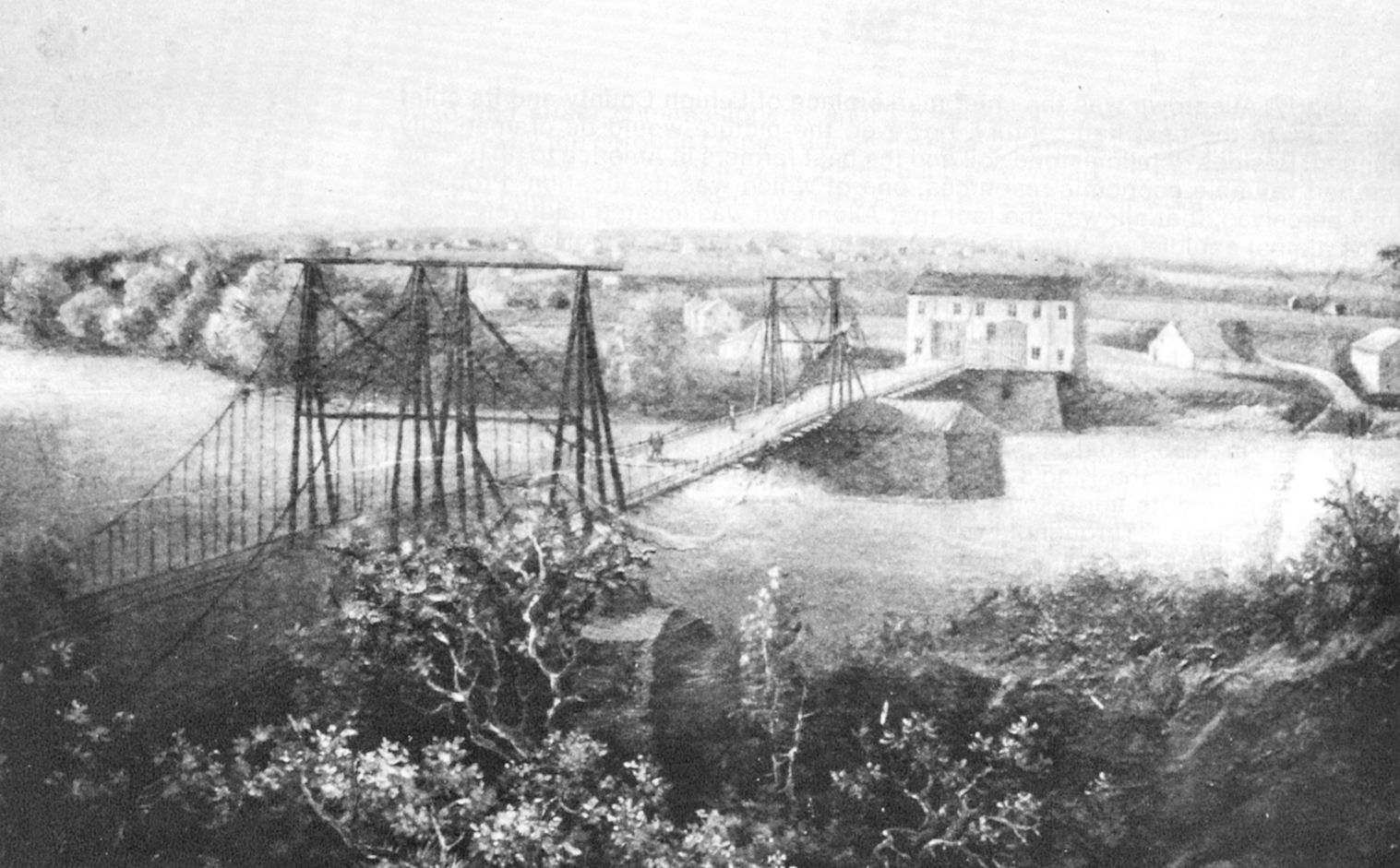 Watercolor of the first bridge erected across the Lehigh River in 1814 , just north of the current bridge. The bridge, erected between 1812-1814 is shown looking west from the east bank of the river. This painting was made about 1830, after the opening of the Lehigh Canal. It also shows Dam Number 7 on the Lehigh River. (Holdings of the Lehigh County Historical Society)